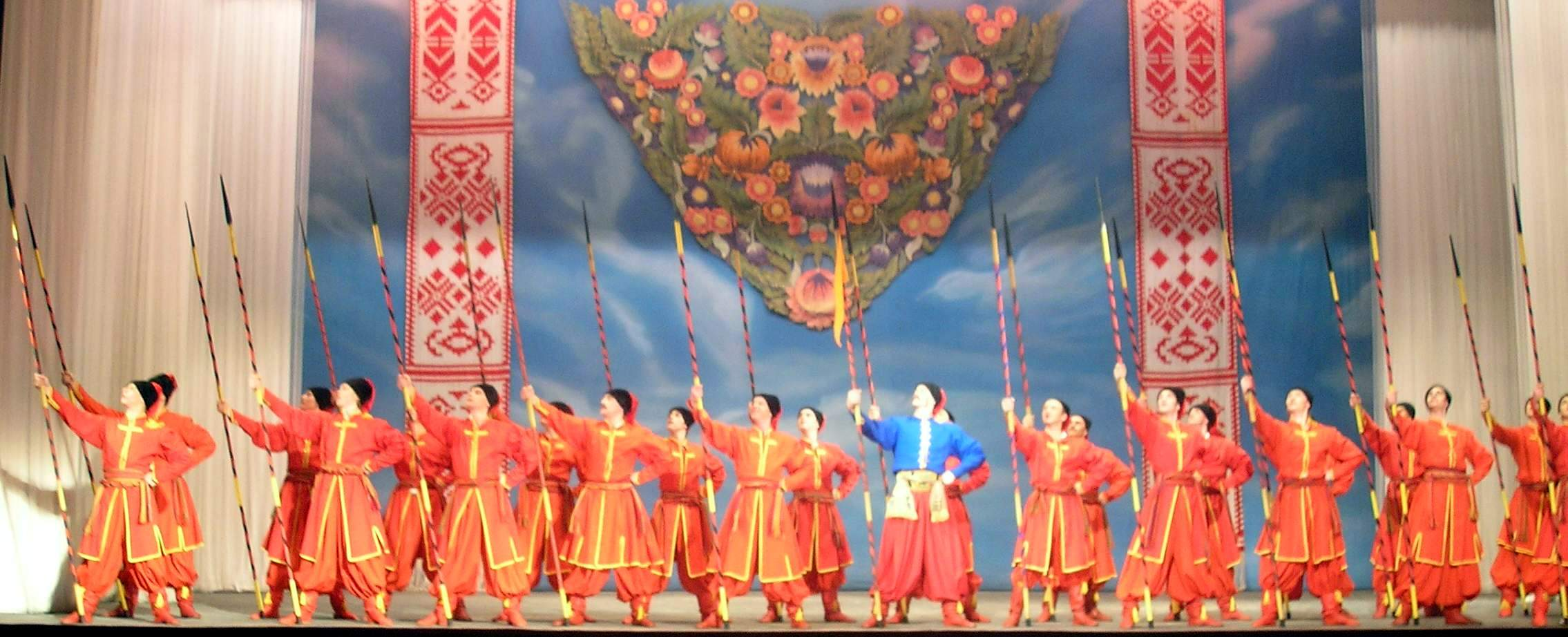 P. Virsky Ukrainian National Folk Dance Ensemble. Performens in Donetsk. April 30. 2006